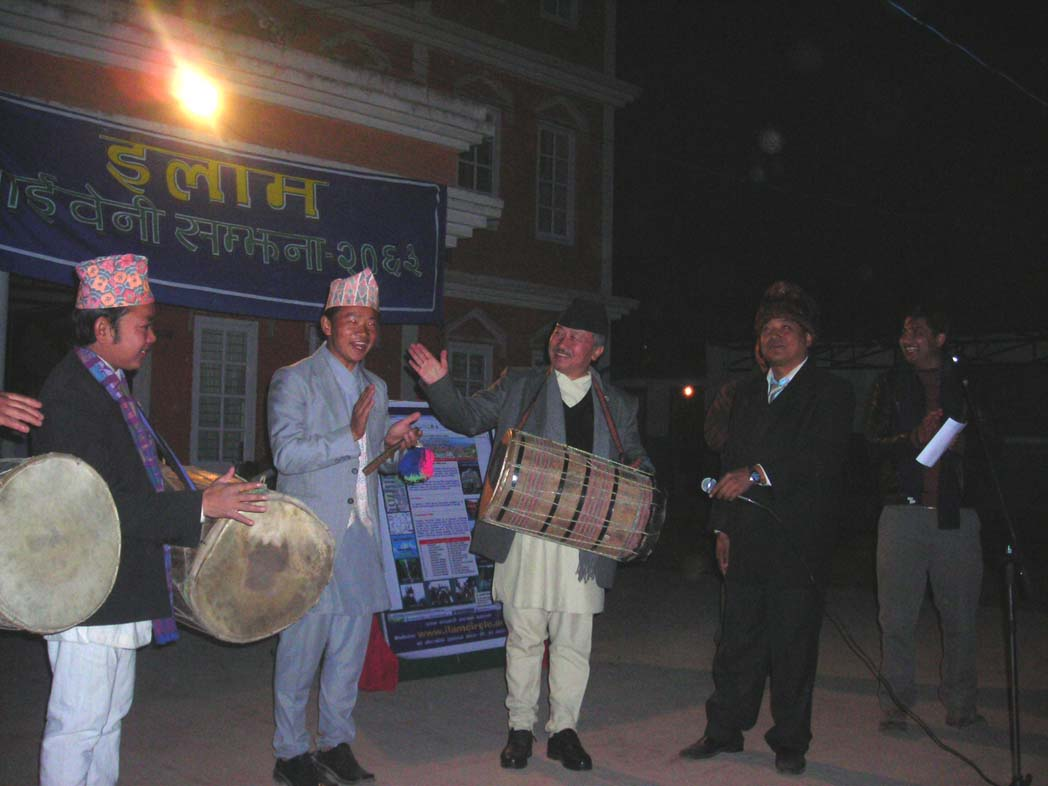 Subhas Nembang playing Chyabhrung the traditional musical instrument of Limbu people